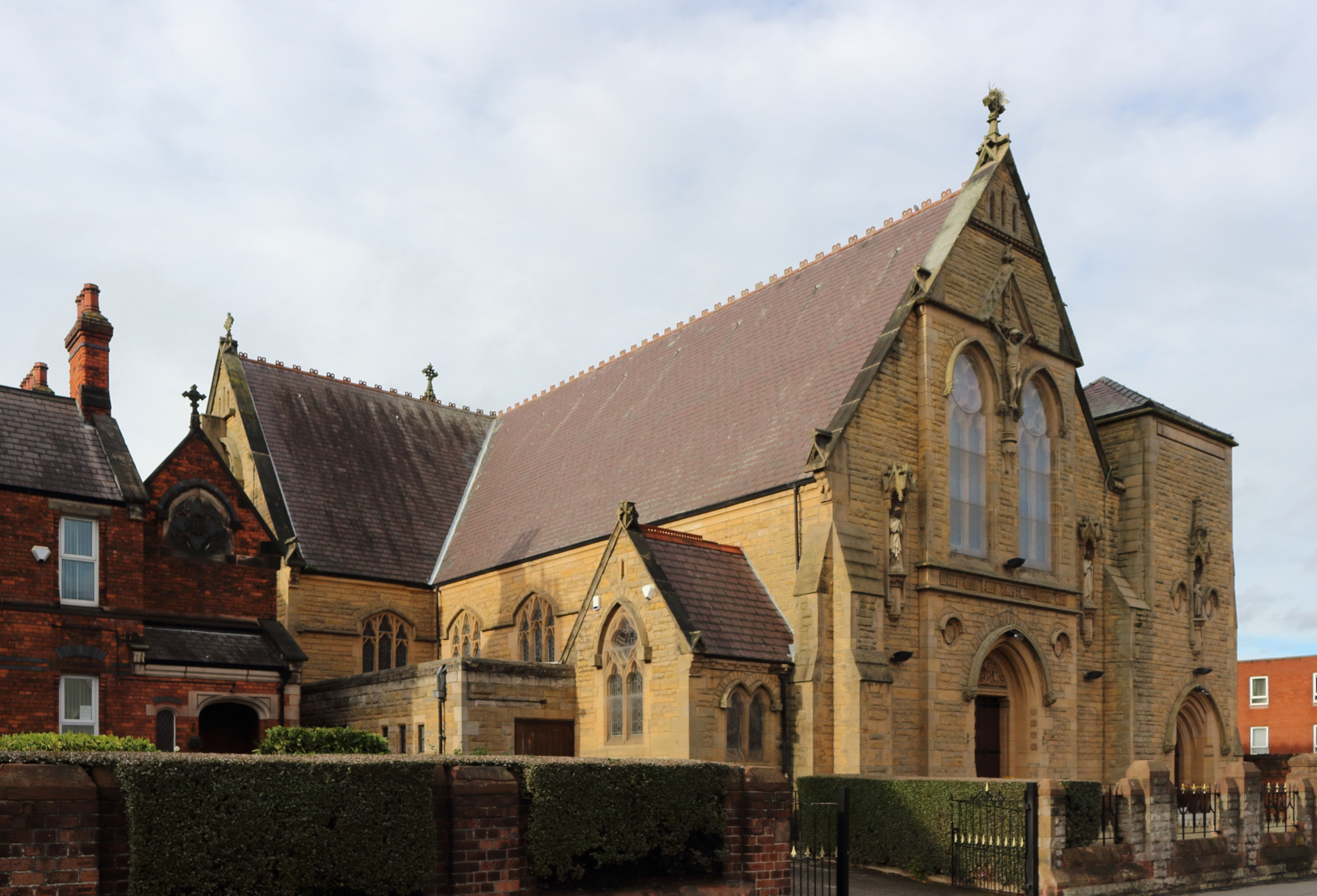 View northwest across Highfield Road. The presbytery, also included in the listing, can be seen to the left.